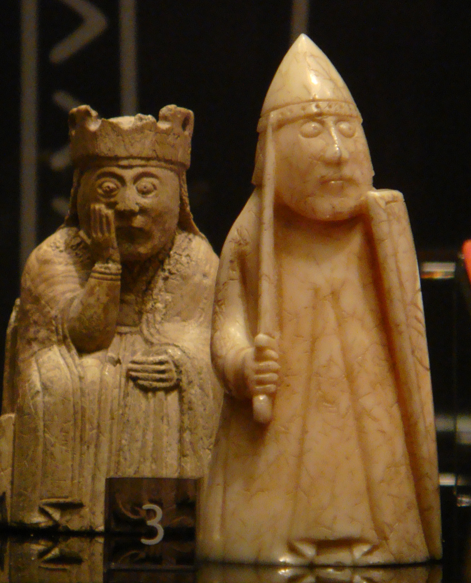 Exhibition in the National Museum of Scotland. Pieces from the British Museum, National Museum of Scotland and other collections. A queen with number of permanent collection BM 85 and a warder (rook) with number NMS 25